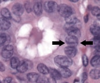 Papillary thyroid cancer microscopic examination, with nuclear grooves (arrows indicate one of them). There is also nuclear crowding, oval to elongated nuclei with fine open chromatin and nuclear membrane irregularity. (H&E, 40x)